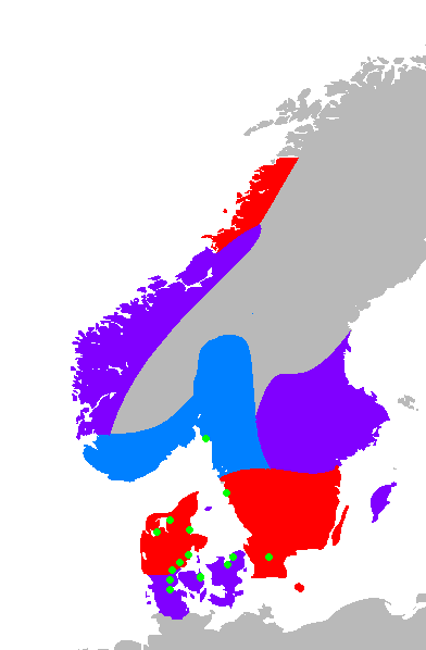 Map showing regional differences in Norse worship c. 900, as determined by place-names and archaeological data. Blue denotes areas primarily worshipping the Vanir, red areas are where worship of Thor, Odin and other Aesir predominate. Purple indicates areas where both cults coexisted. Green dots indicate Odin-place names. From Christiansen, Erik. The Norsemen in the Viking Age. Blackwell, 2002.